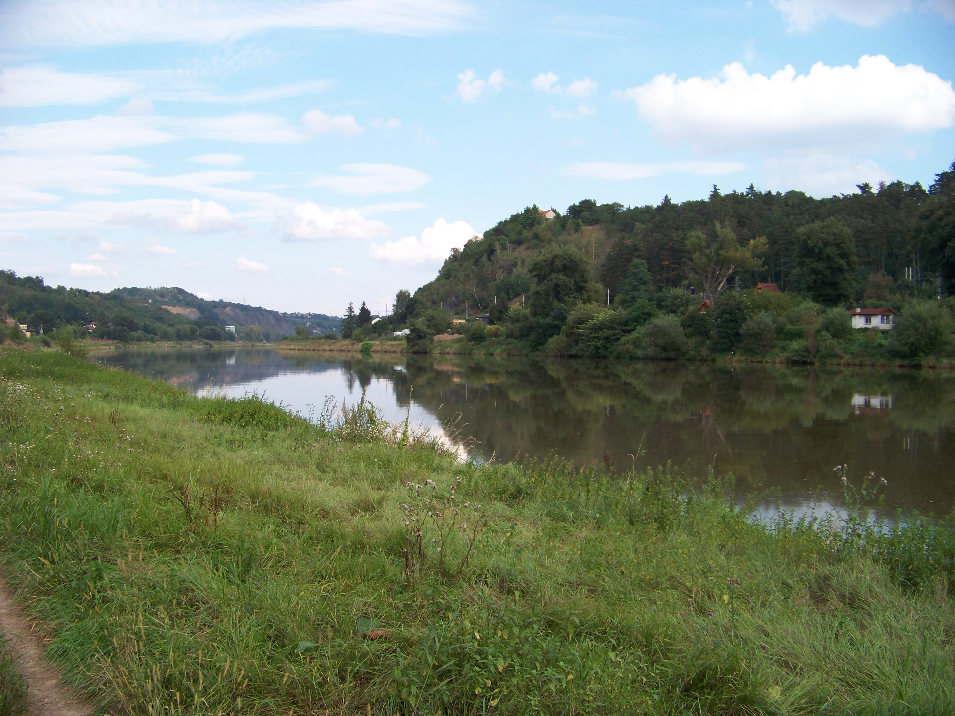 Roztoky-Žalov, Prague-West District, Central Bohemian Region, Czech Republic. Levý Hradec hill seen across the Vltava river.